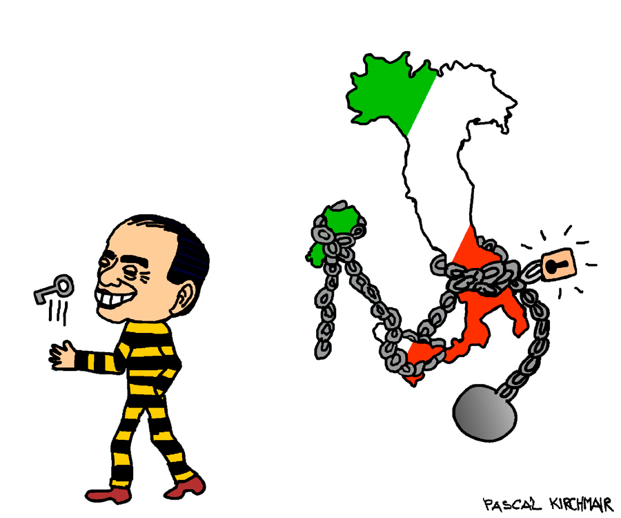 Berlusconi Cartoon